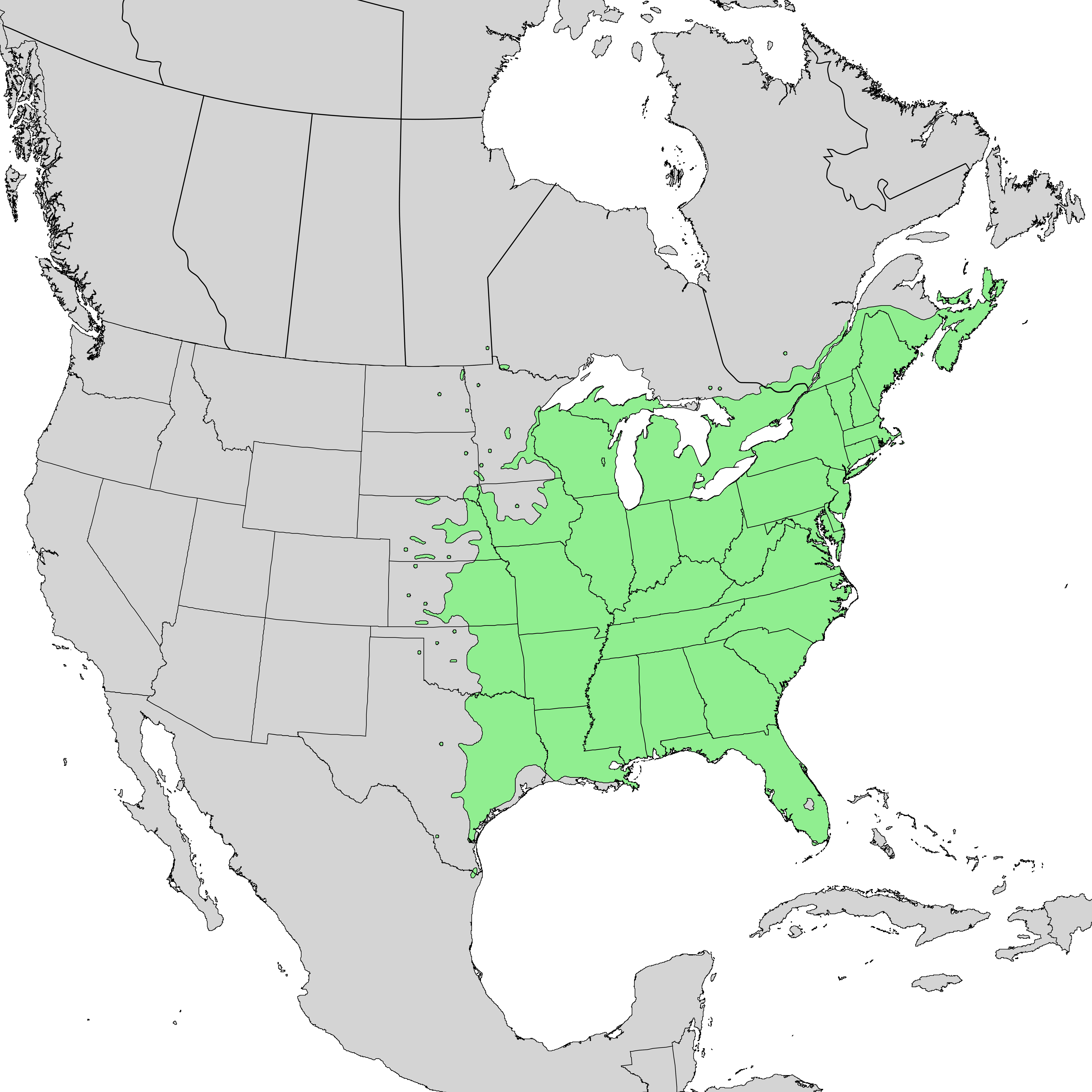 Natural distribution map for Sambucus nigra subsp. canadensis (American elderberry) [syn. Sambucus canadensis]